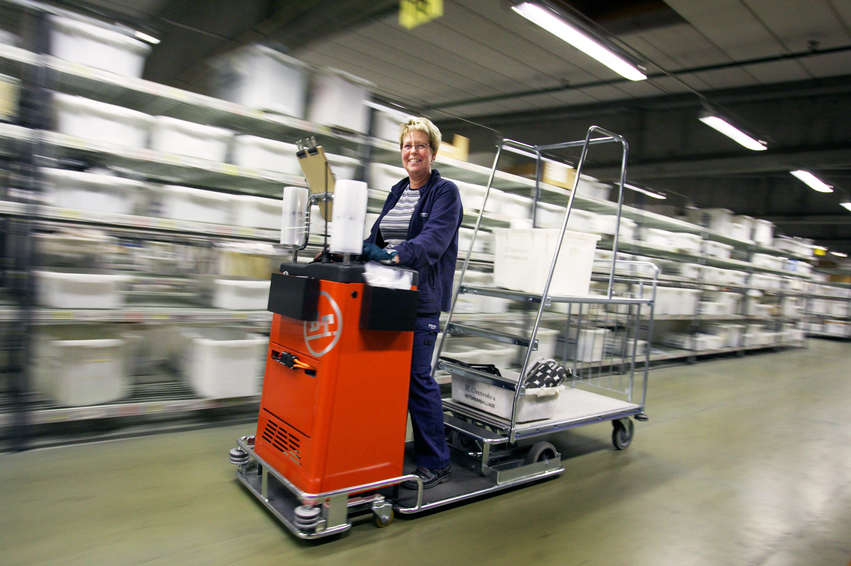 Arbetsmiljö Keywords: Working Life, Business life